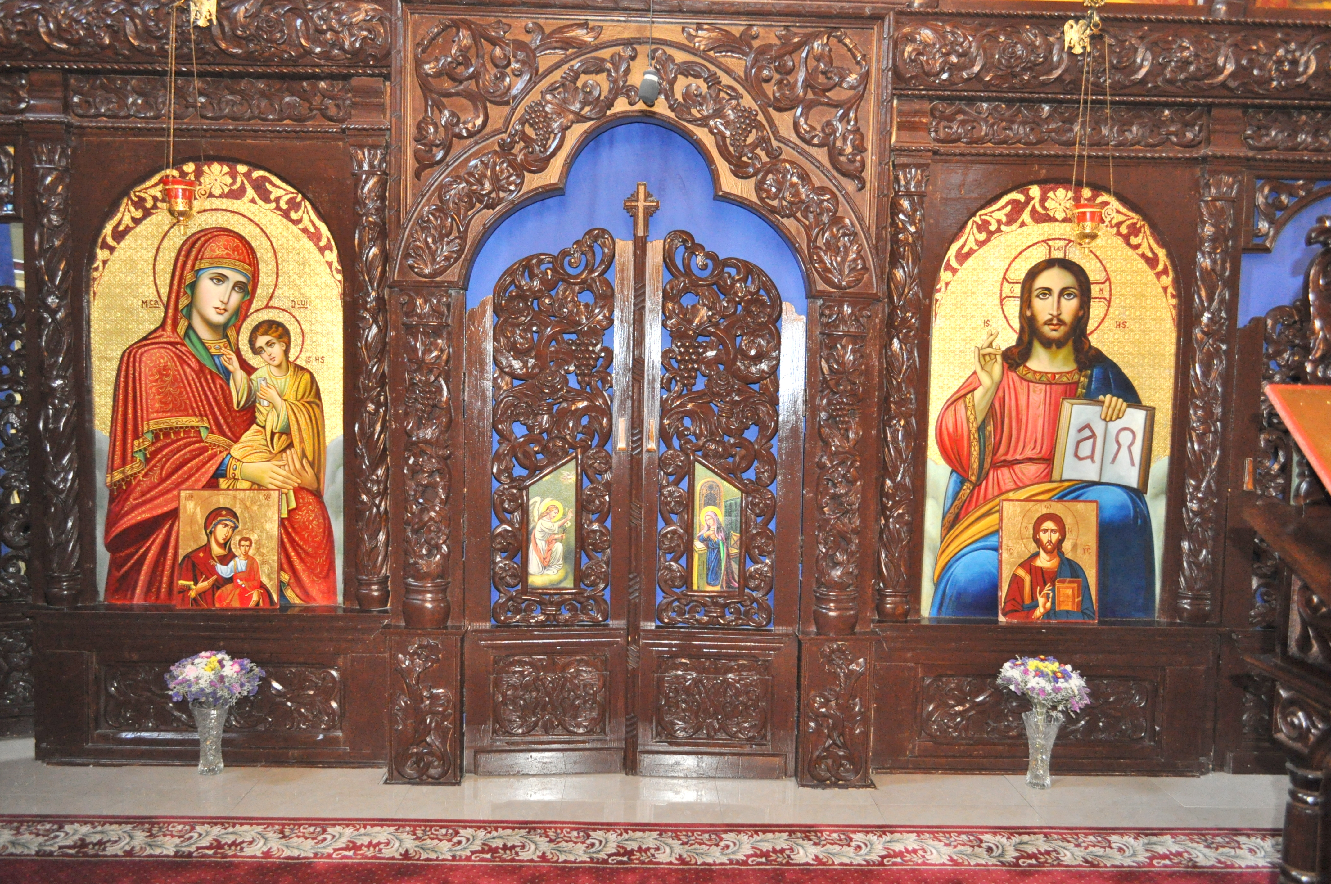 Lutheran church in Domnești, Bistrița-Năsăud county, Romania